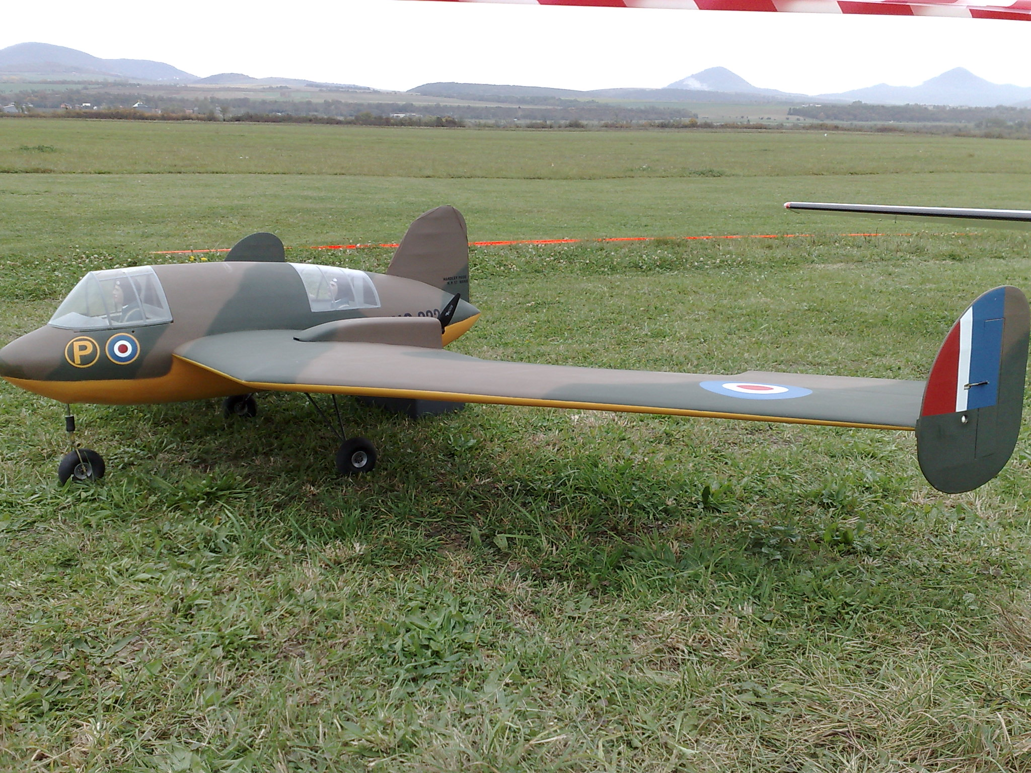 This is Handley Page H.P.75 Manx radio-controlled model, seen on Ražňany airport in Slovakia, during annual model exhibition.